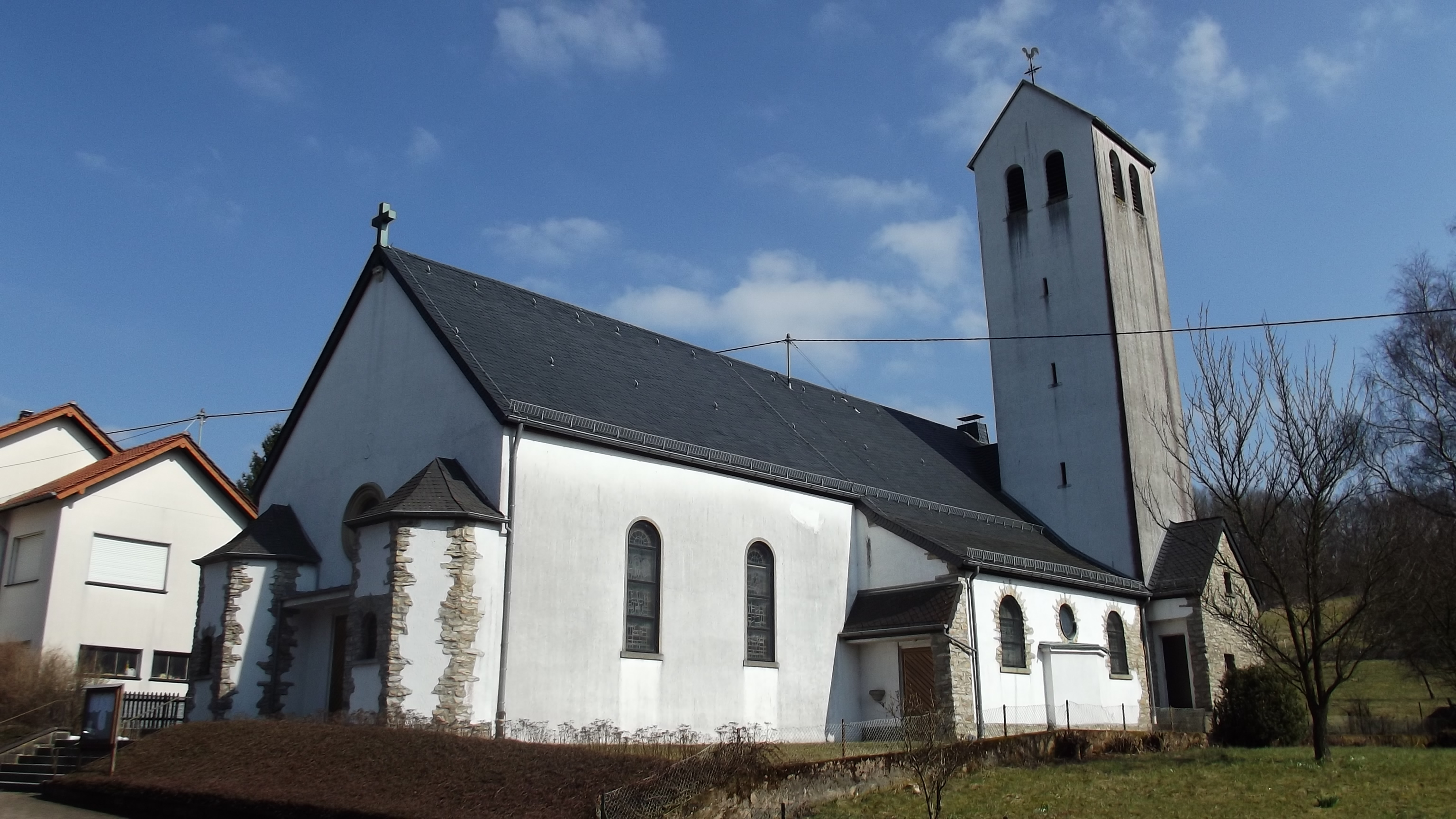 Exterior of the roman catholic church in Schwarzenbach (nearby Nonnweiler), Saarland